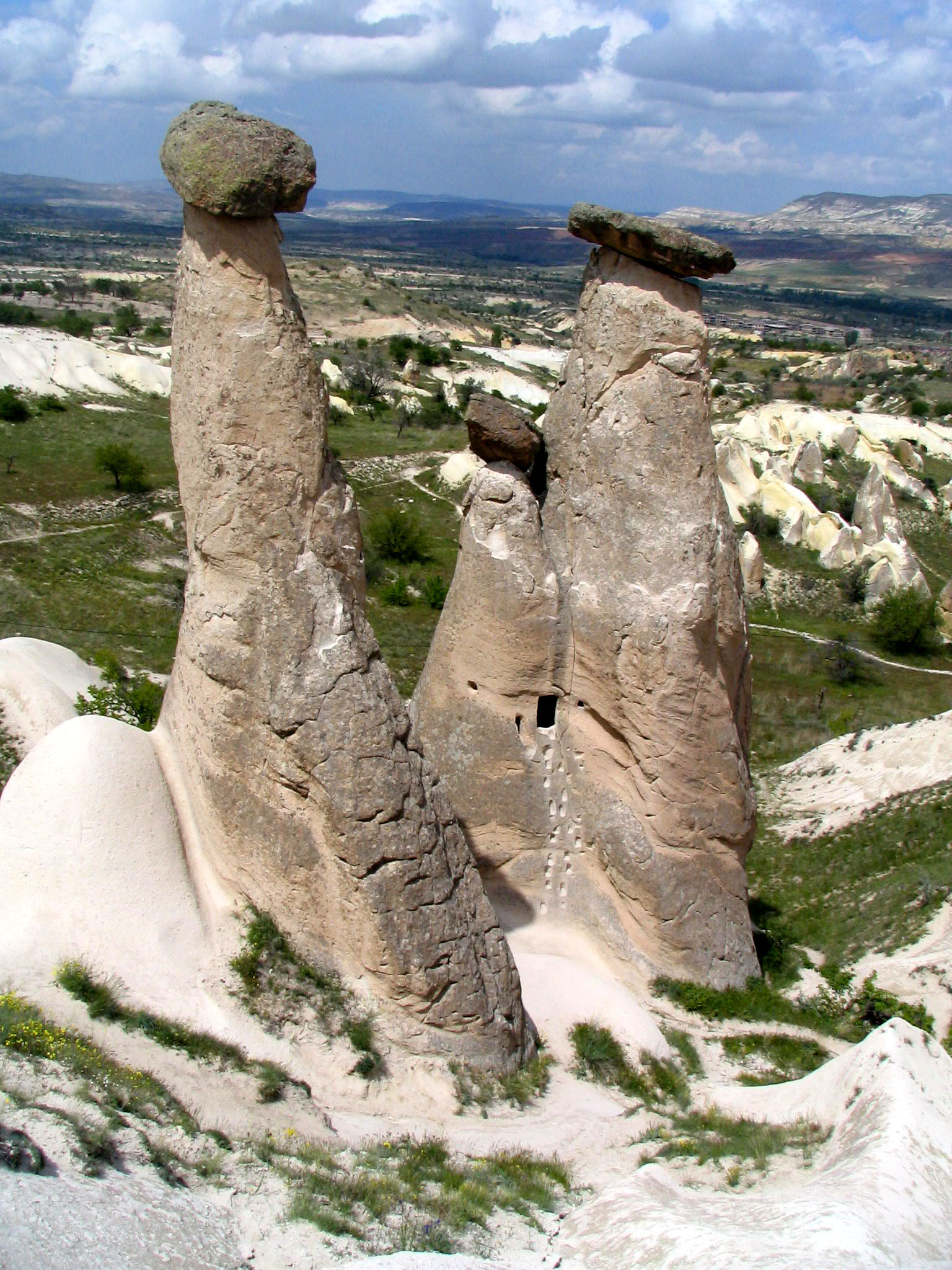 Fairy chimneys in Ürgüp, Turkey. May 2006. Photo by Winstonza talk